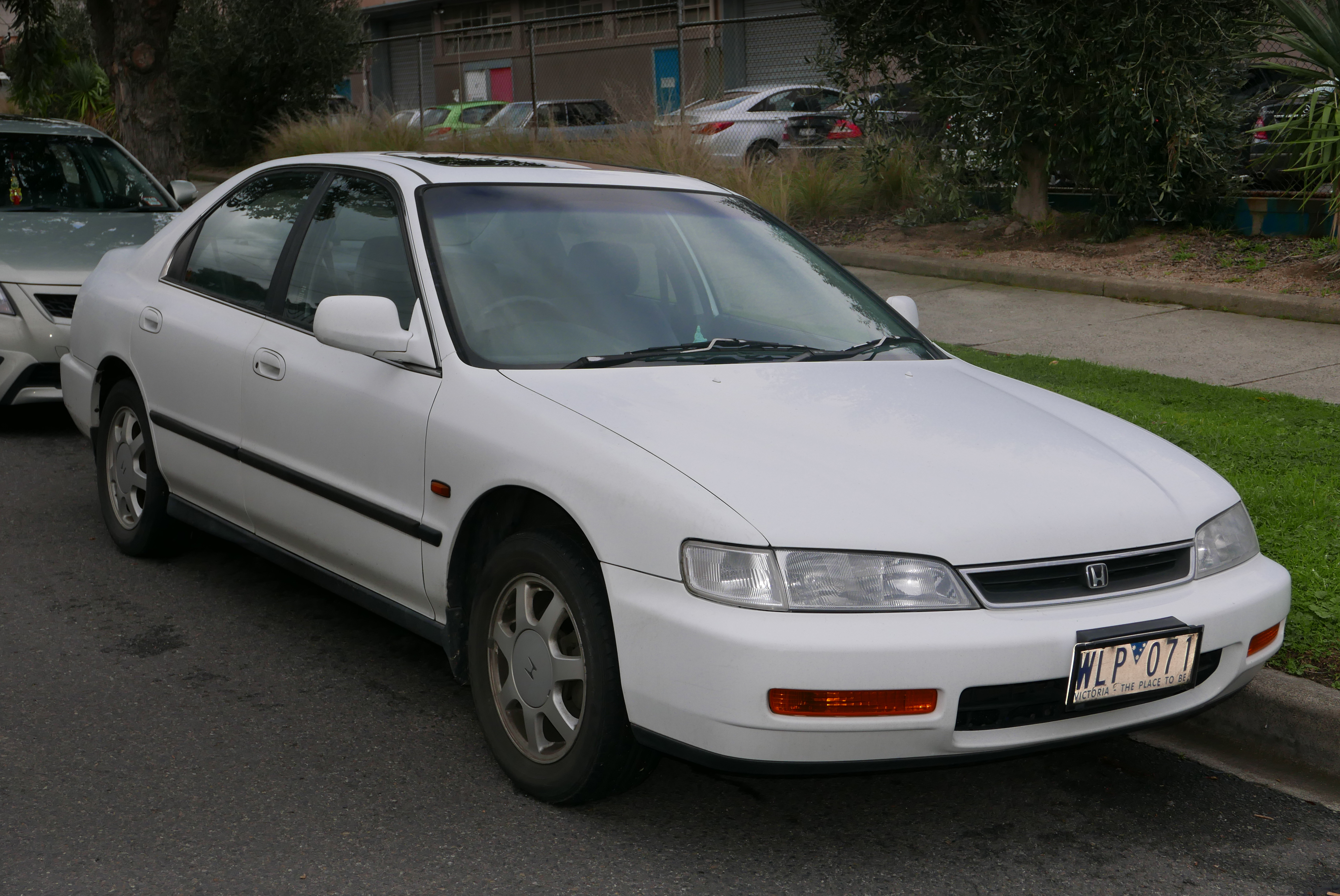 1997 Honda Accord VTi sedan. Photographed in Thornbury, Victoria, Australia. Vehicle registration enquiry results Jurisdiction Victoria Registration WLP071 Chassis code JHMCD56400C315449 Engine code F22B14002419 Compliance date 1997-10 Year of manufacture 1997